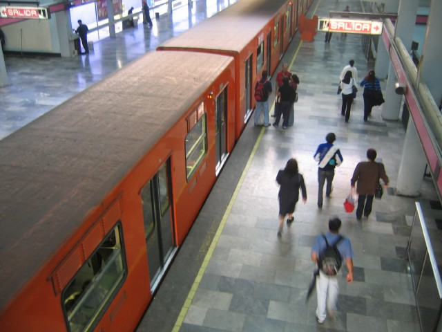 Summary Picture of Mexico City Metro station Observatorio taken by Eric Shalov on August 26, en:2005, around noon local time, with a Canon SD-100 digital camera, and scaled with Apple GraphicConverter.